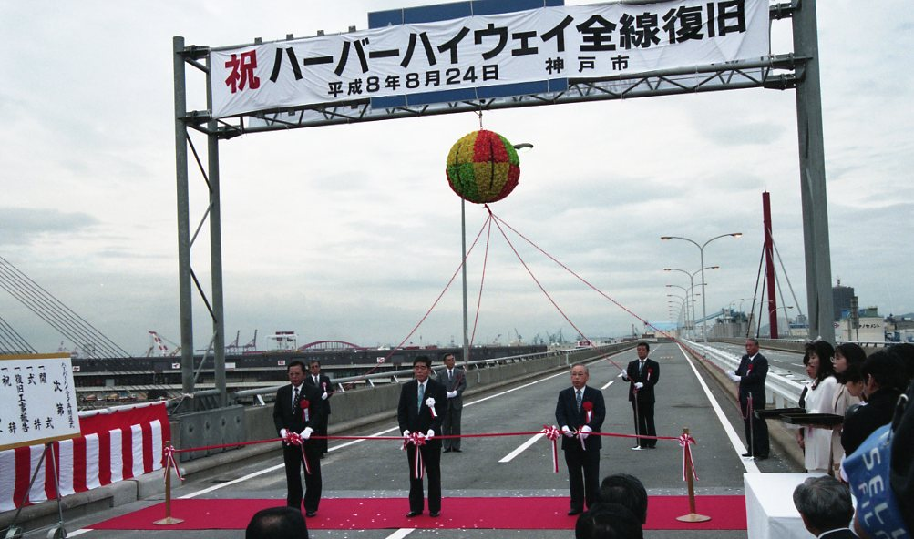 August 24, 1996: The Harbor Highway was completely restored.